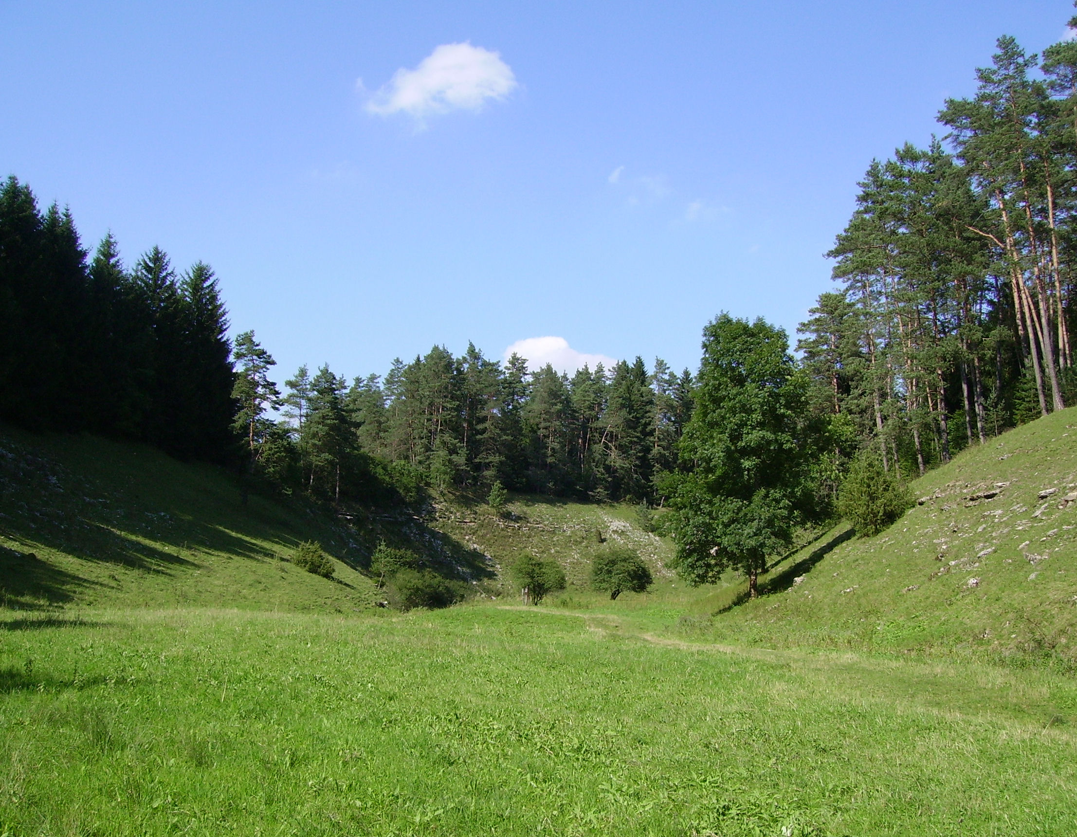 Description: Trockental bei Heroldsmühle, Franken dry valley near Heroldsmühle, (Franconia, Germany) Source: own photography Date: August 2005 Author: --Immanuel Giel 10:04, 13 September 2005 (UTC) Other versions: none